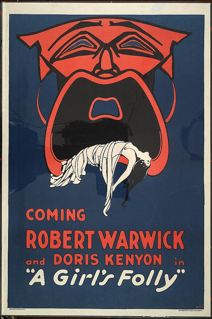 Motion picture poster for A Girl's Folly (1917) starring Robert Warwick and Doris Kenyon showing a partially draped woman lying at the base of a large mask (tragedy?) which appears to be lamenting the girl's folly.